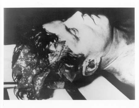 Kennedy autopsy head photo